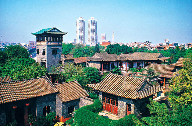 Ke Yuan